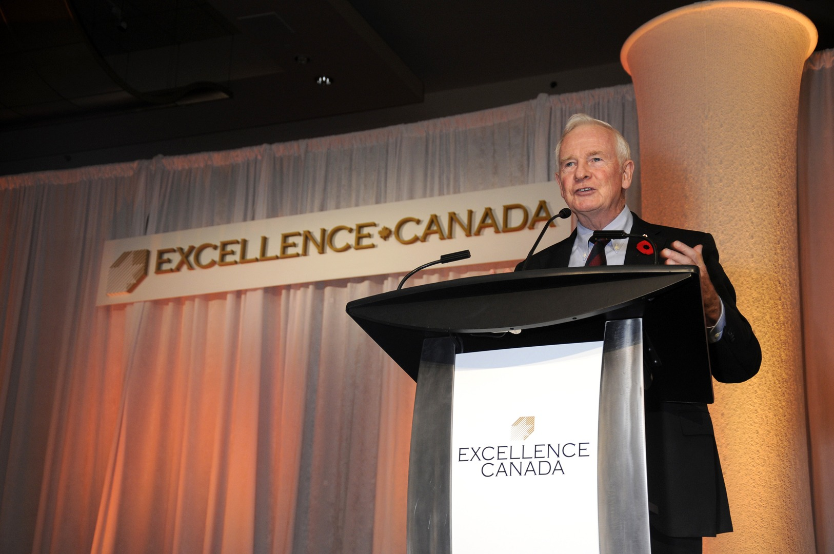 His Excellency, the Right Honourable David Johnston speaking at the Excellence Summit in 2012